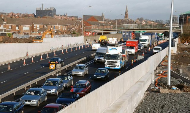 The Westlink, Belfast (9). See 544802. Two lanes of the underpass are now open in each direction. The old temporary alignment of the Grosvenor Road is on the right although hardly recognisable. The scheme includes another underpass at Broadway on the Donegall Road and the widening of the Broadway - Stockman's Lane section of the M1 to three lanes - while keeping the road open for all traffic. The overall completion date is currently given as March 2009. In the meantime queues such as this are common throughout the working day.